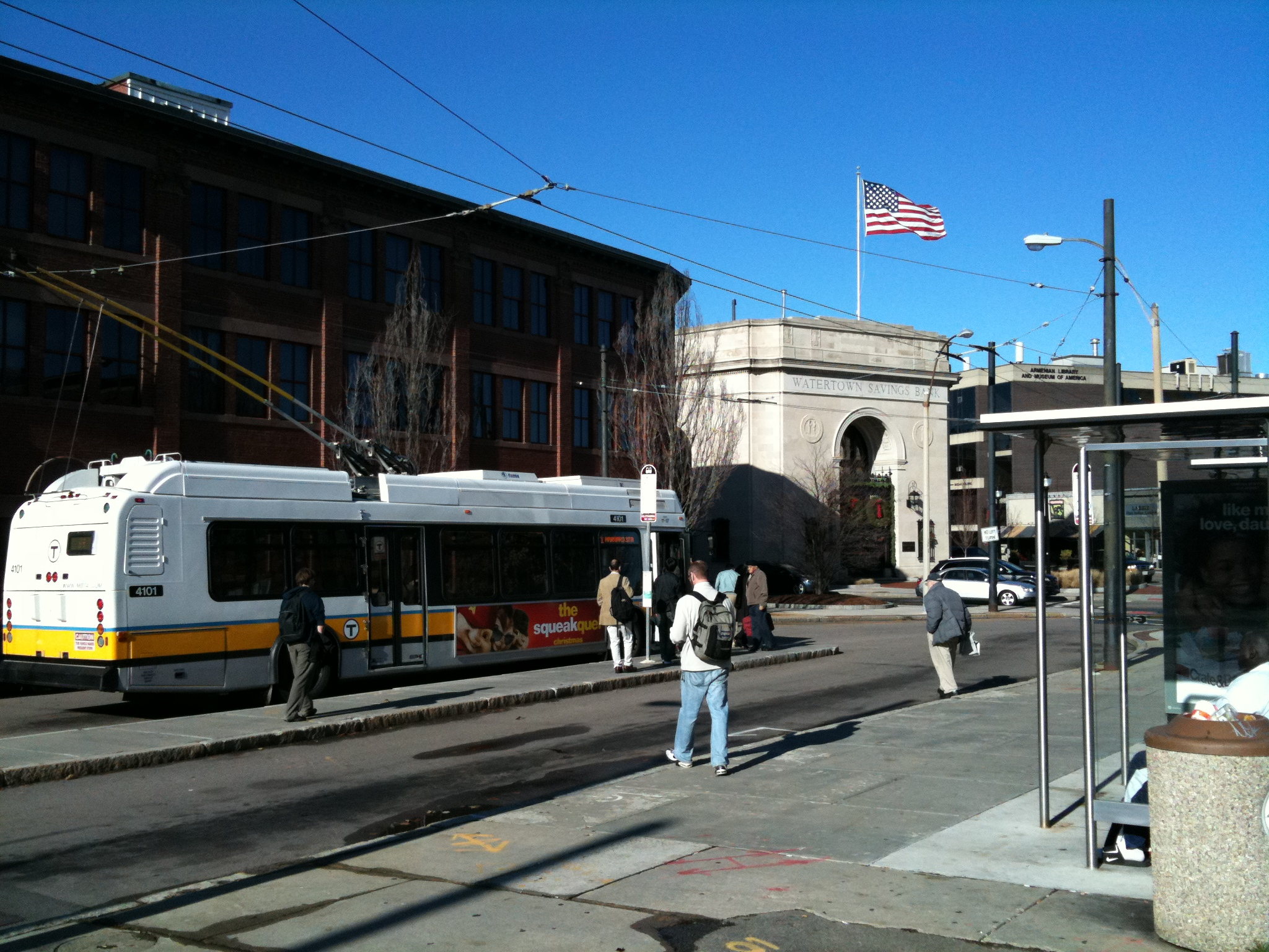 Watertown Square, Massachusetts bus station showing MBTA route 71 trolley bus taking on passengers at the start of a trip to Harvard Square on a sunny, windy fall day.